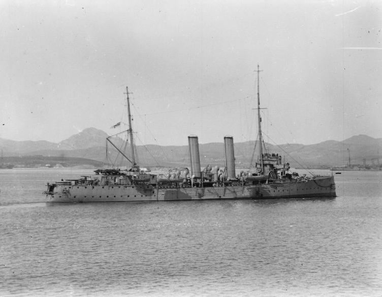 Photograph of British Apollo class minelaying cruiser HMS Latona at Mudros.